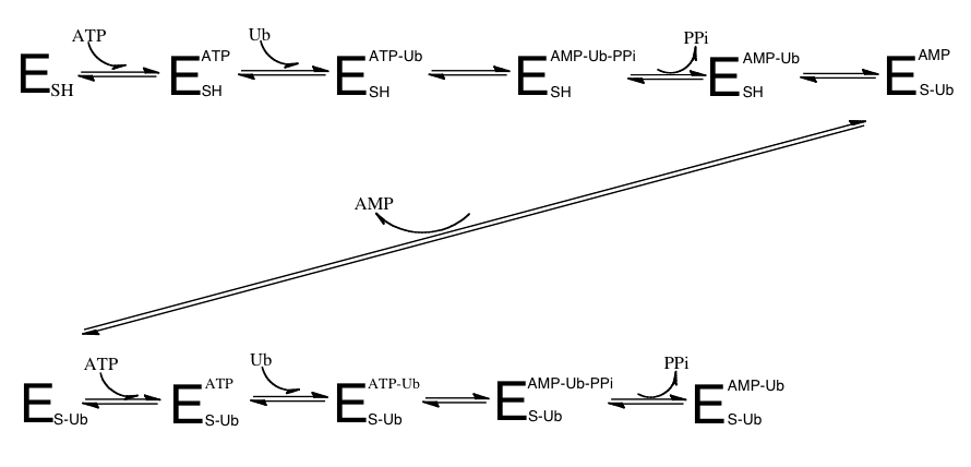 A model for how ubiquitin activating enzyme binds to both ATP and the ubiquitin substrate